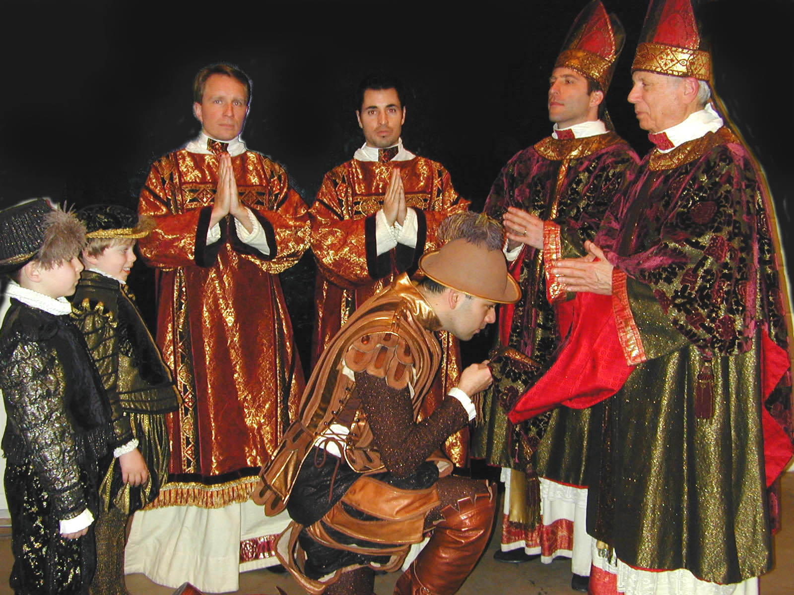 Extras, or supernumeraries, rehearse a scene for Giuseppe Verdi's opera Don Carlo.